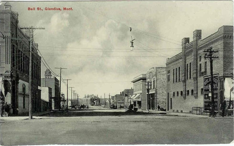 Postcard picture of Bell Street in Glendive, Dawson County, eastern Montana. Mailed (or "dated", which may possibly mean it was not mailed) in 1913. Store's Web page states: "Dated on back Glendive 3-12-1913"